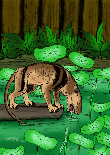 Restoration of the triisodontid mesonychian, Triisodon quivirensis, of Paleocene New Mexico